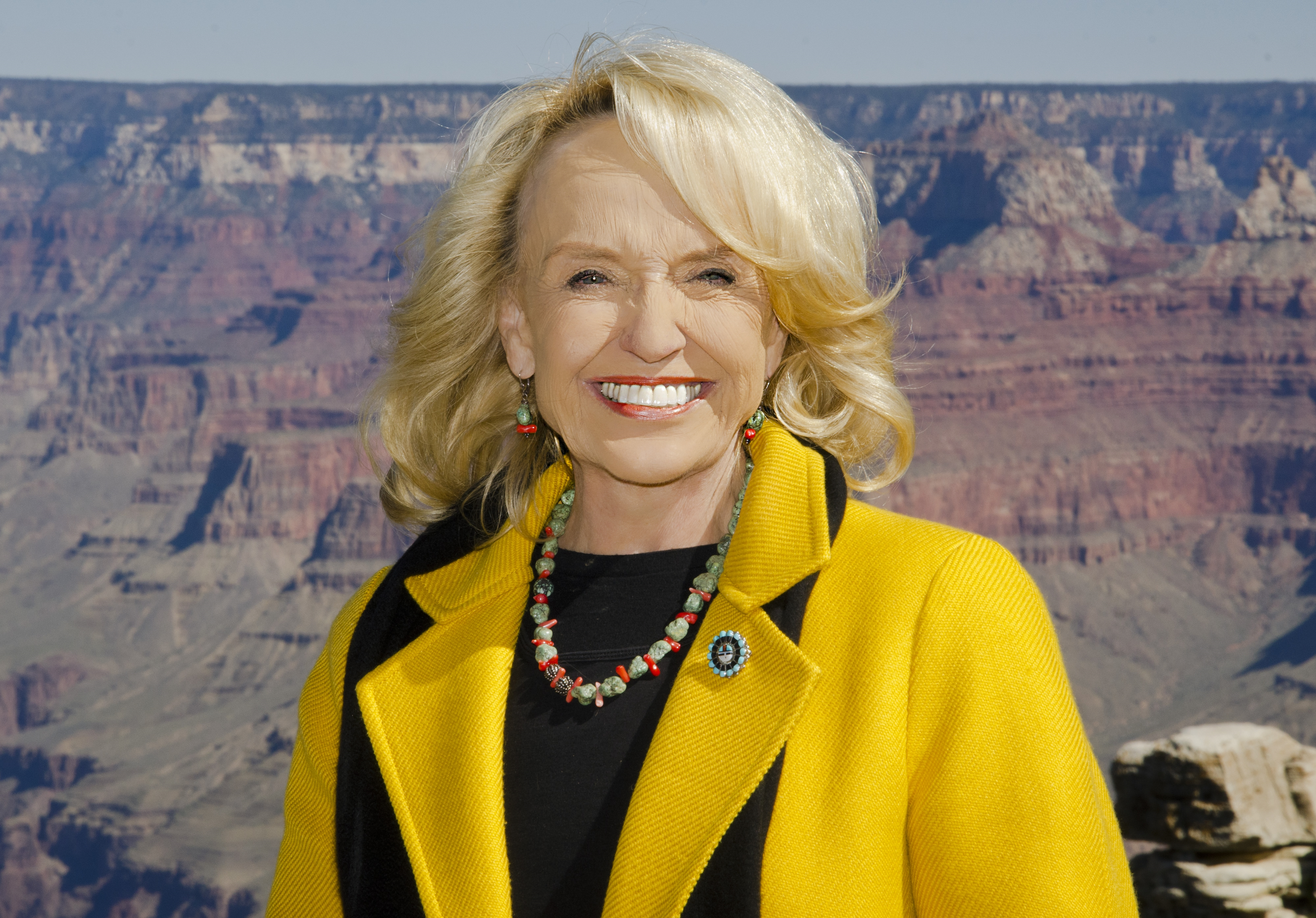 Grand Canyon's South Rim